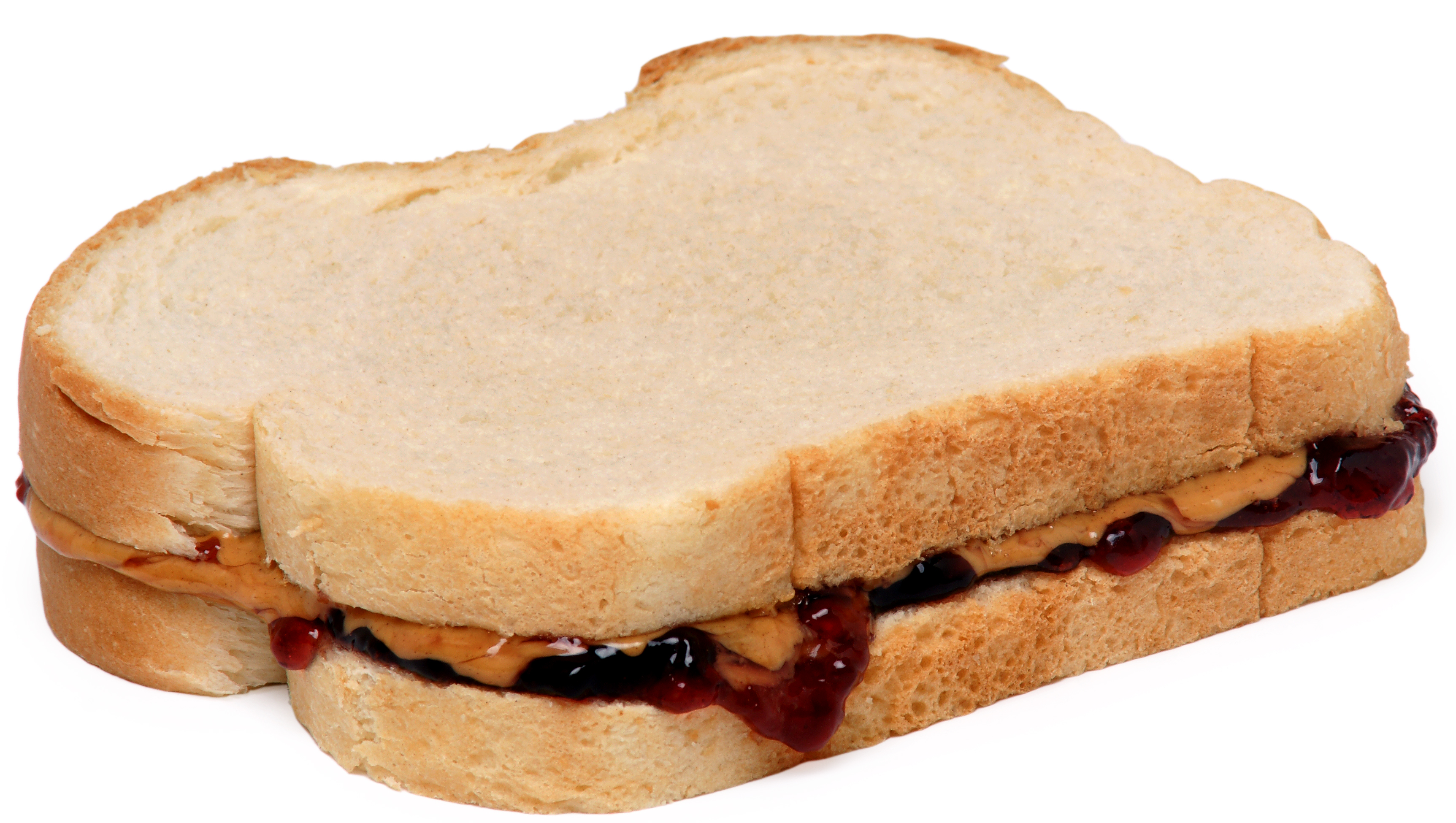 A peanut butter and jelly sandwich, made with Skippy peanut butter and Welch's grape jelly on white bread.